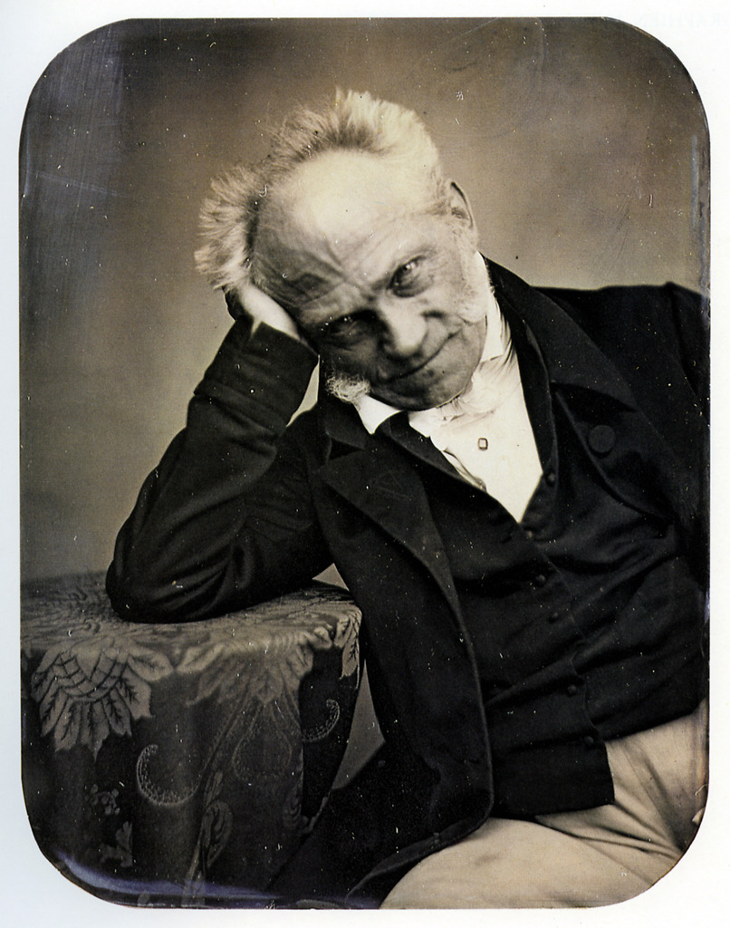 The recording was probably on 3 Sept. 1852 made​​. The daguerreotype has a size of 9.5 x 7.3 cm.